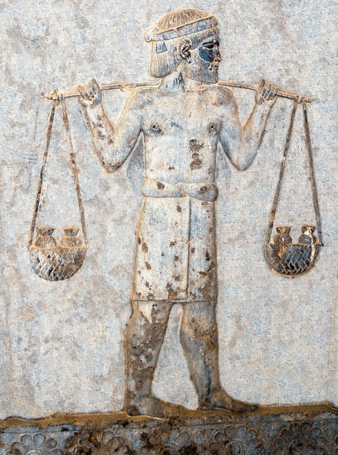 Indian gold tribute donor Apadana